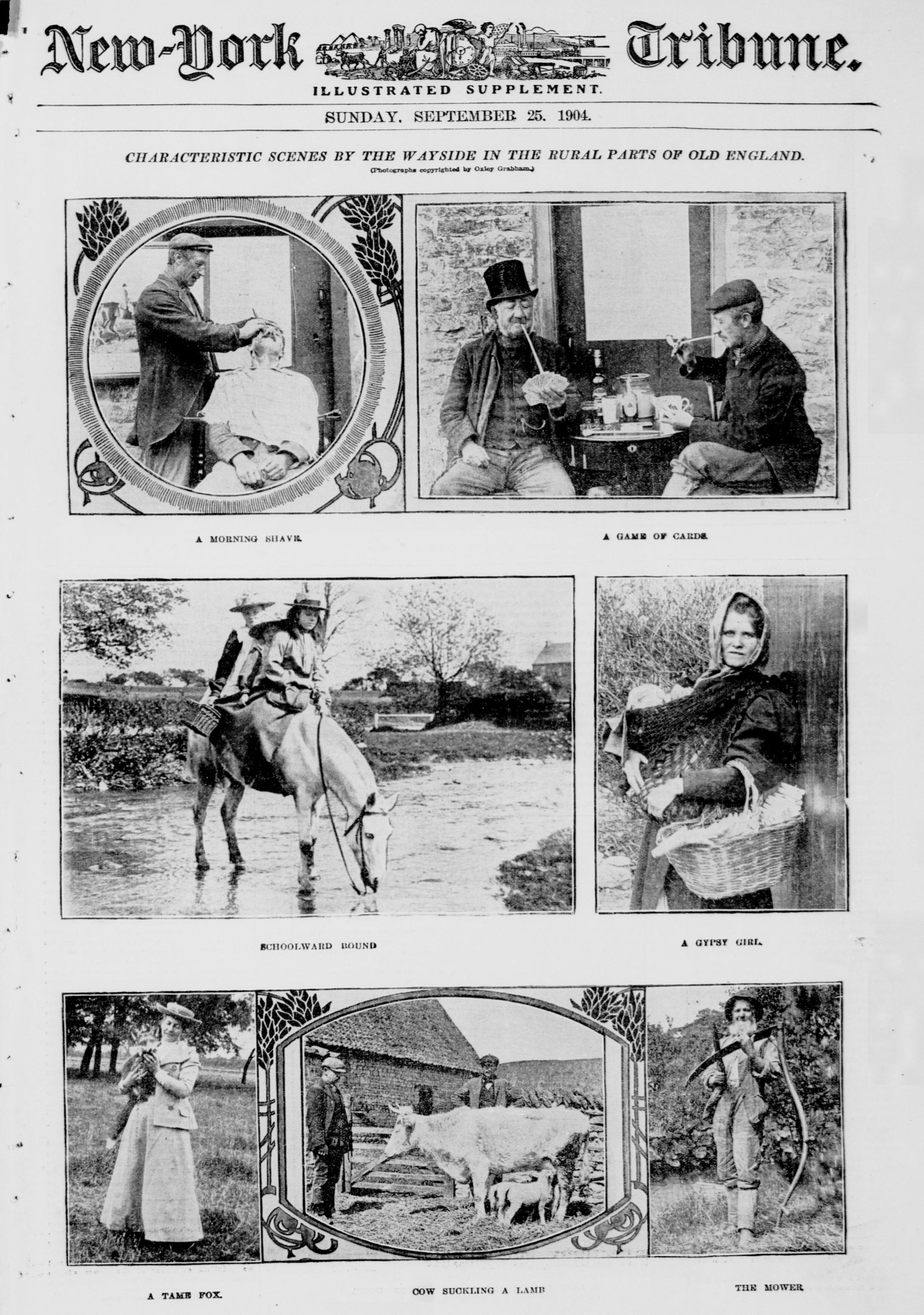 New-York tribune. (New York [N.Y.]) 1866-1924 September 25, 1904, Image 47 Notes: Cover, illustrated supplement. Format: Newspaper page, from microfilm Rights Info: No known restrictions on reproduction. Repository: Library of Congress, Serial and Government Publications Division, Washington, D.C. 20540 USA. Part Of: Chronicling America (Library of Congress) (DLC) - Persistent URL: More information about the Chronicling America Web site is available at